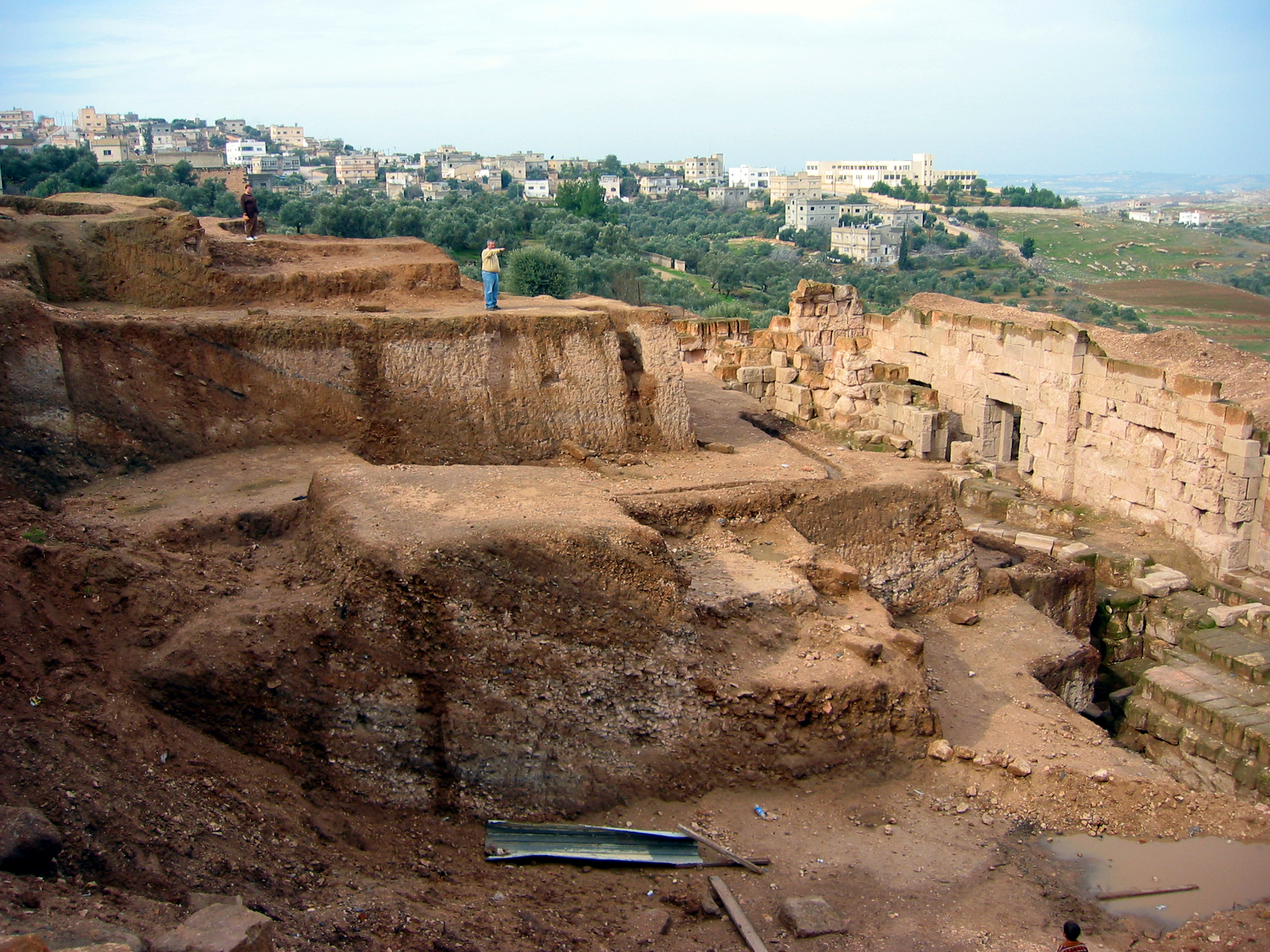 Capitolias